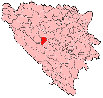 Donji Vakuf municipality